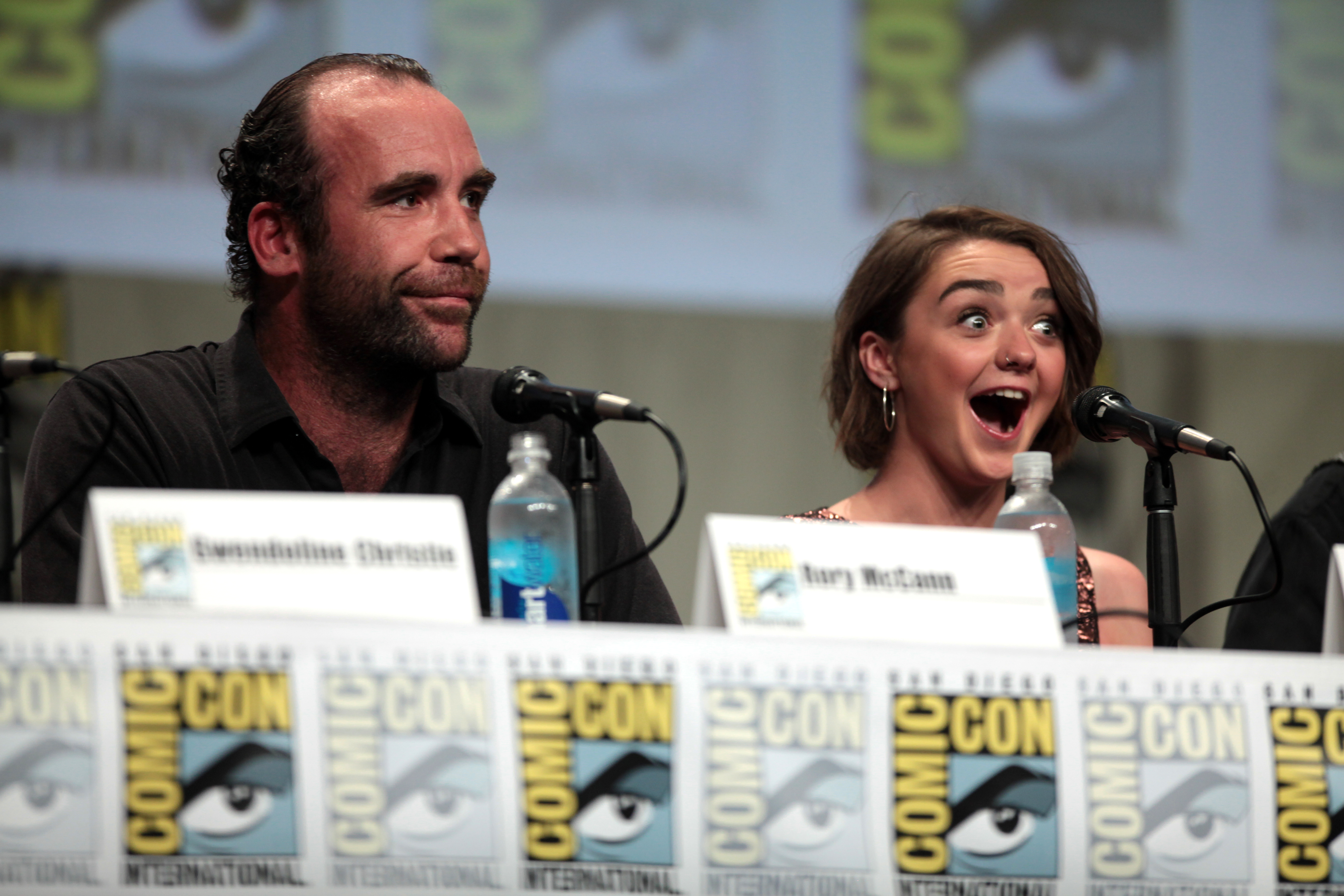 Rory McCann and Maisie Williams speaking at the 2014 San Diego Comic Con International, for "Game of Thrones", at the San Diego Convention Center in San Diego, California.